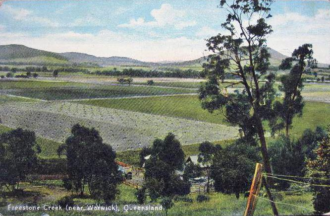 Freestone Creek (near Warwick) Queensland, Australia - circa 1910